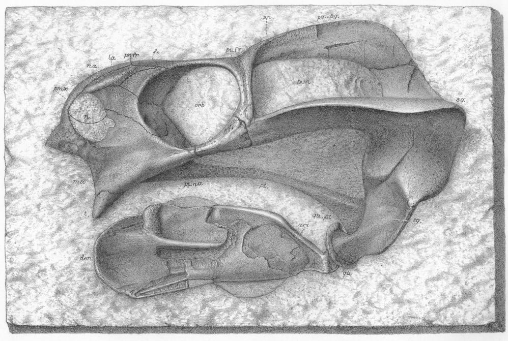 Drawing of the skull of Gordonia traquairi, from "Reptiles from the Elgin Sandstone. Description of Two New Genera" by E. T. Newton (Philosophical Transactions of the Royal Society of London. B 185: 573-607).